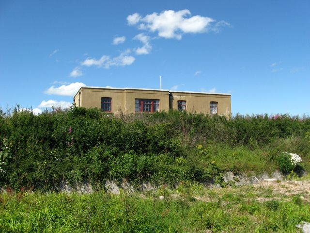 Chapel Bay Fort. It is surrounded by a large moat, and (see 861473) has military vehicles parked outside. The owner is in the process of making it into a museum, it was a control centre in WW2.